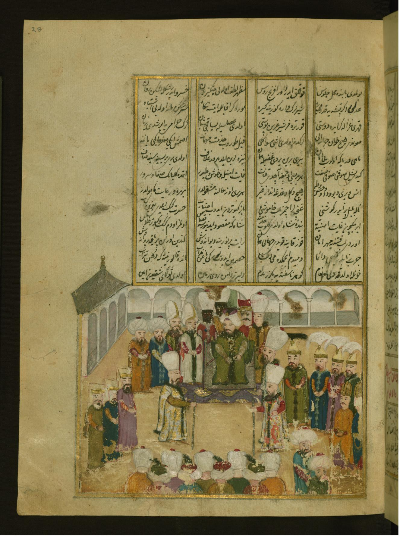 Khamsa by Atai (Walters MS 666)